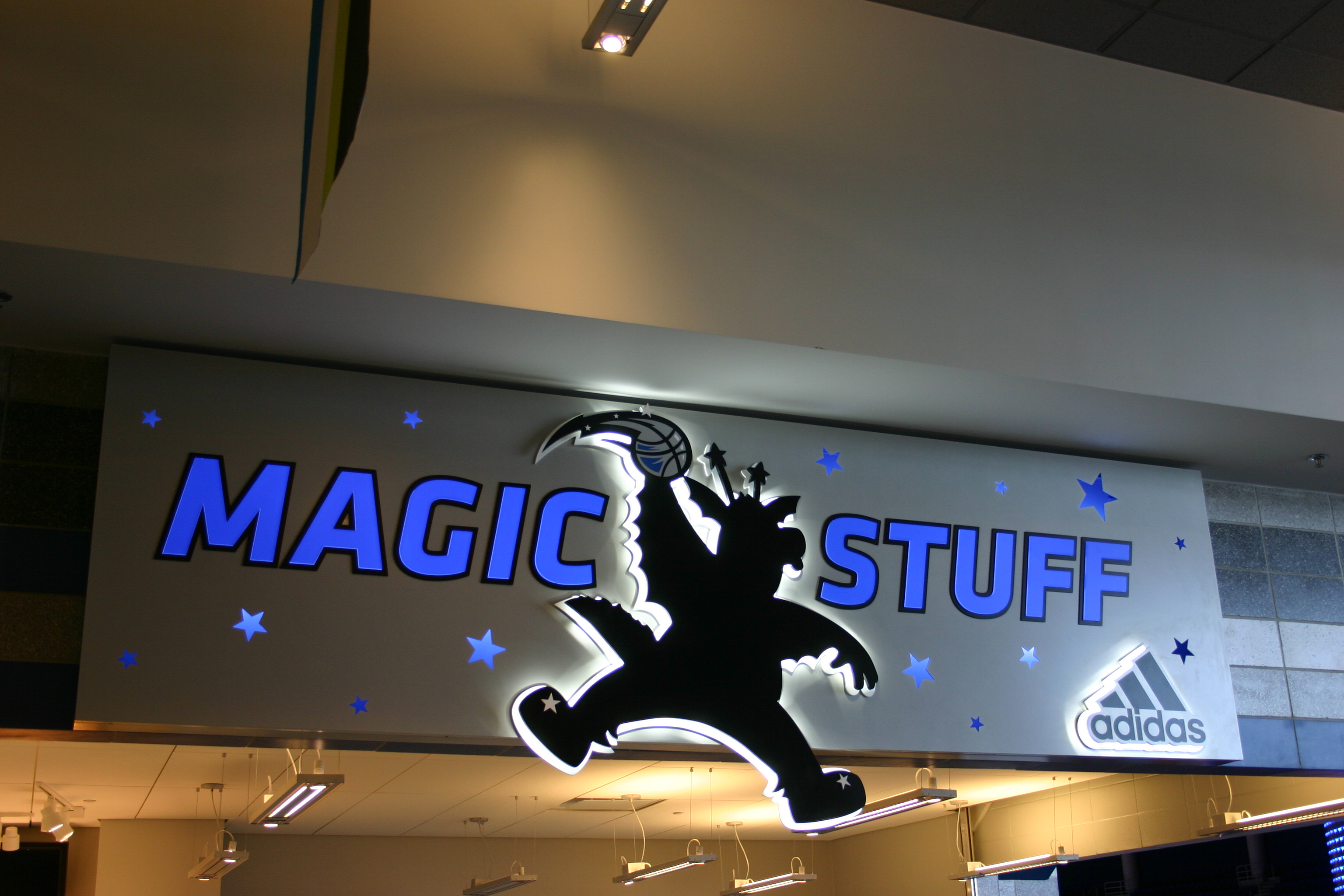 Magic Stuff Amway Center Downtown Orlando